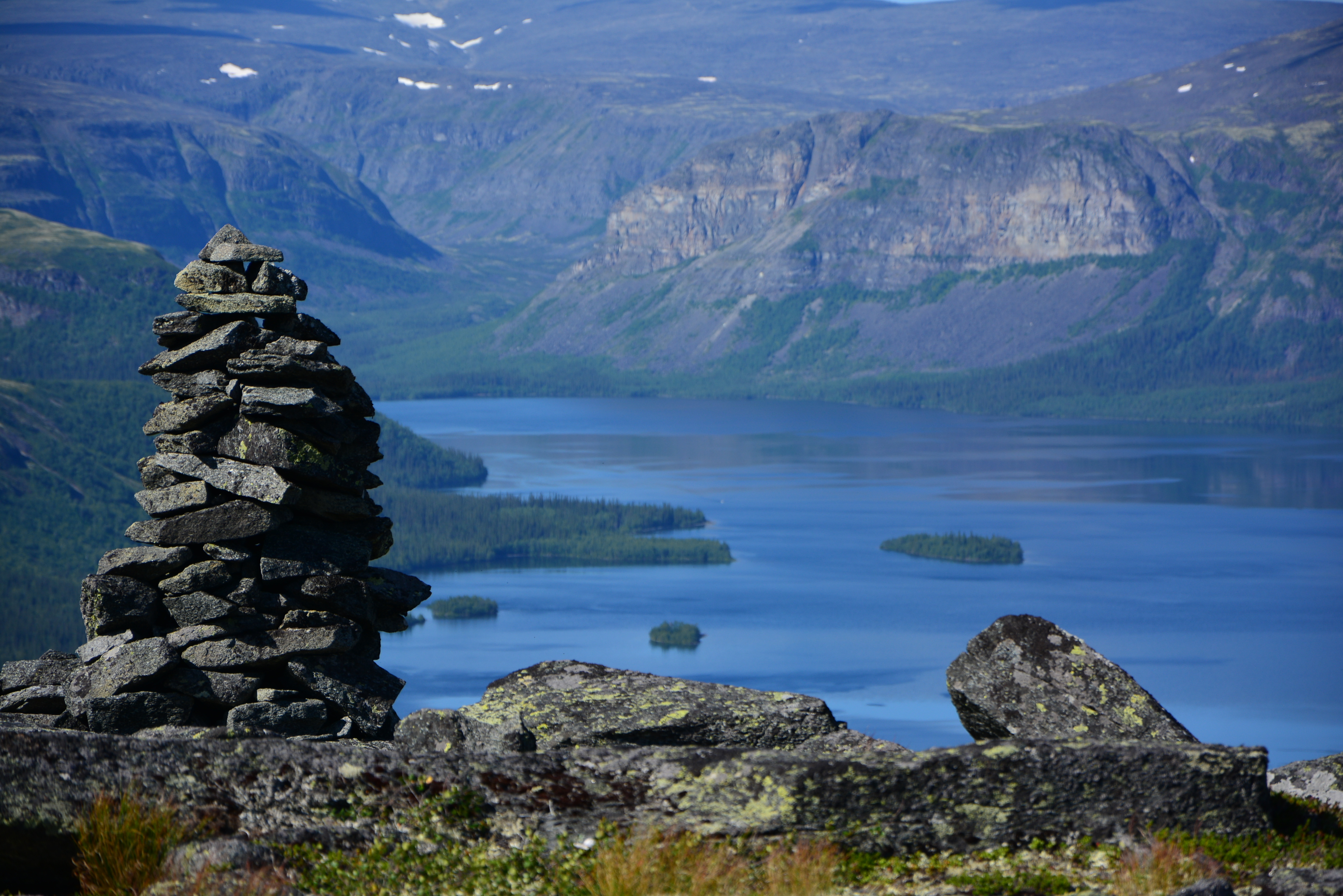 Seid near the lake Seydozero